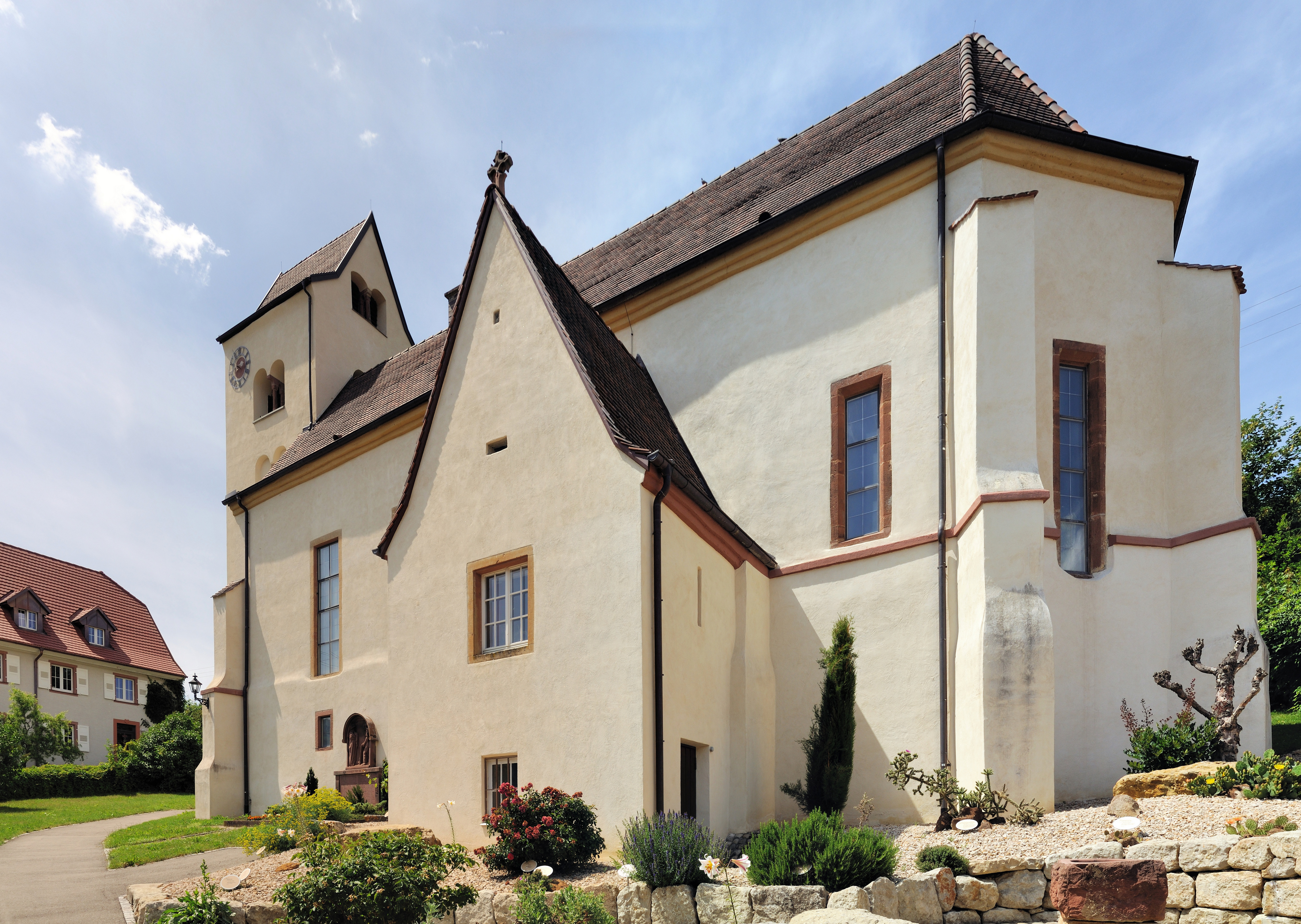 Niedereggenen: Protestant Church